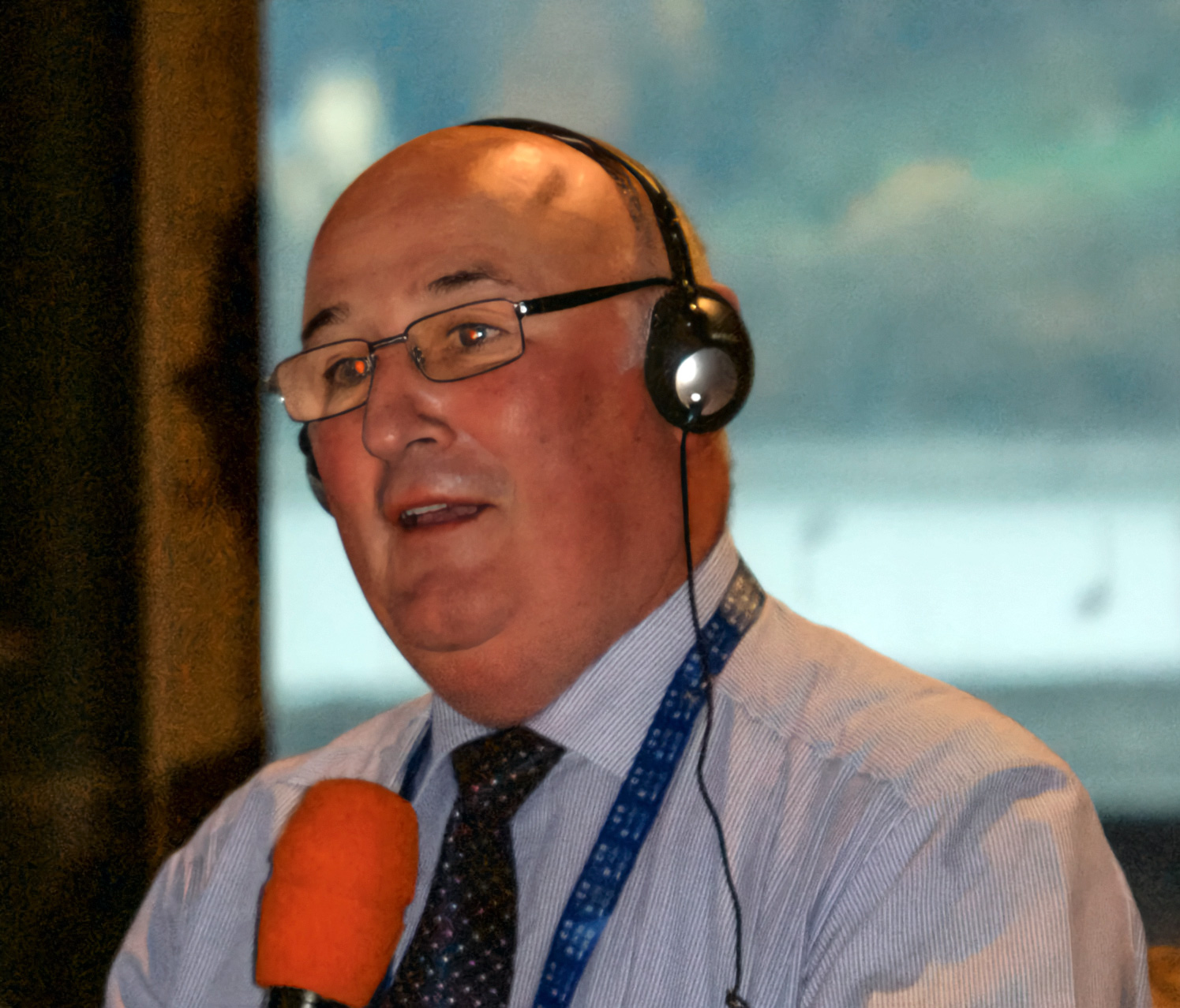 Gerard Patrick Craughwell at the event: "Subsidiarity as Building Principle of the European Union" in Bregenz, Vorarlberg, Austria on 16 November 2018.